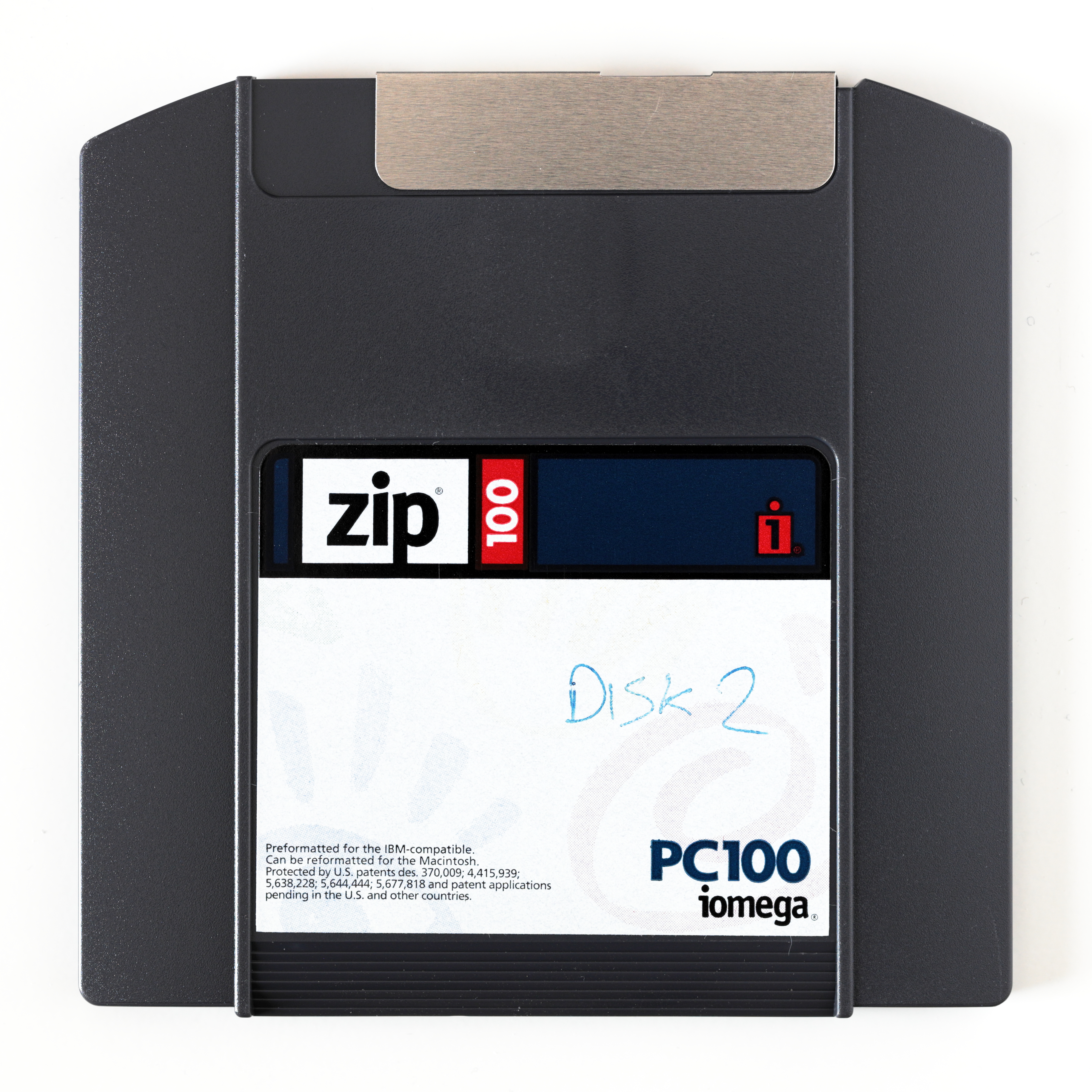 An Iomega Zip disk with 100MB capacity. The label has "DISK 2" written on it in ballpoint pen by the user.